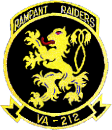 Emblem of the U.S. Navy Attack Squadron 212 (VA-212) "Rampant Raiders".